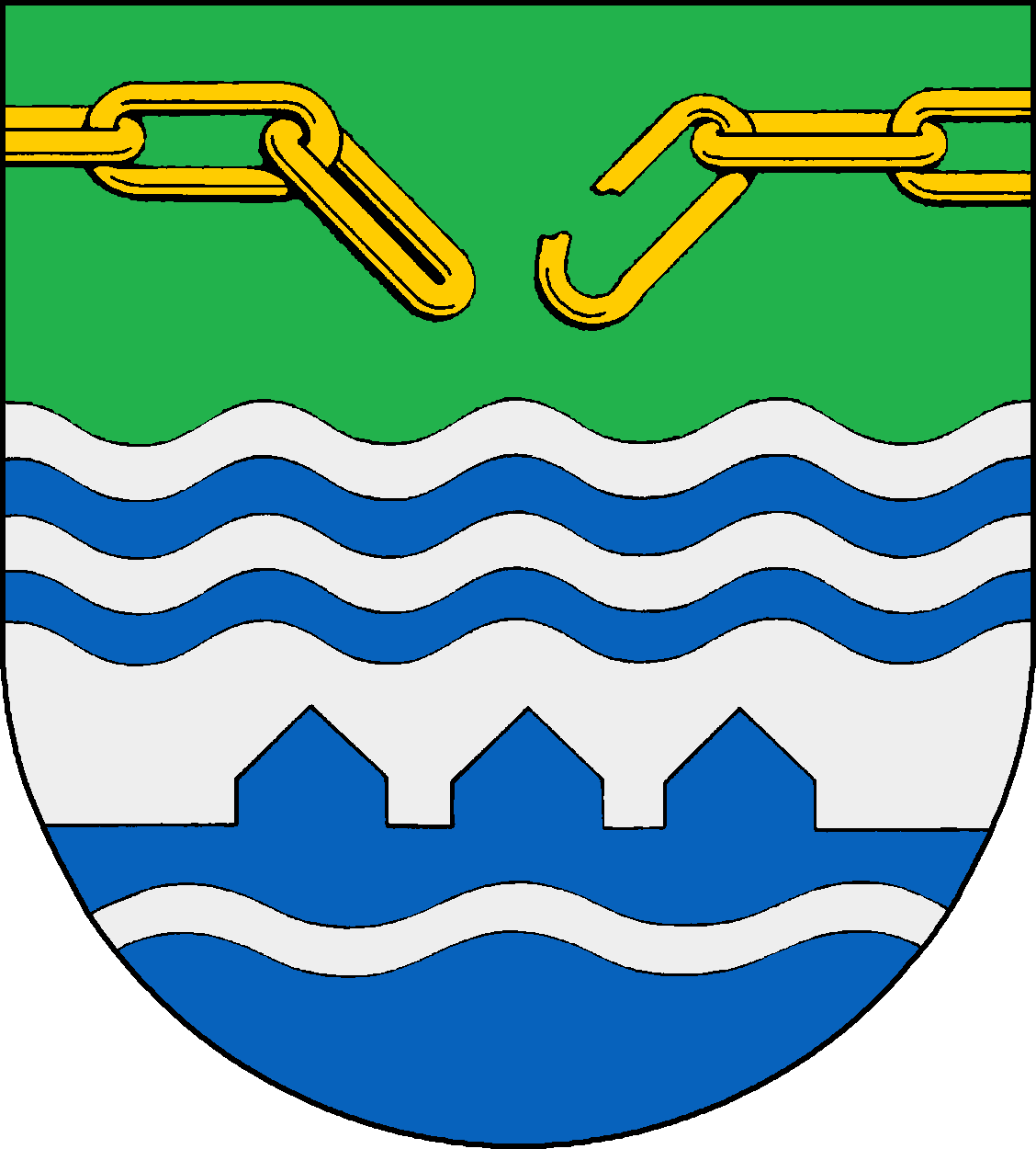 Coat of arms of the municipality Koldenbüttel in Schleswig-Holstein, Germany.